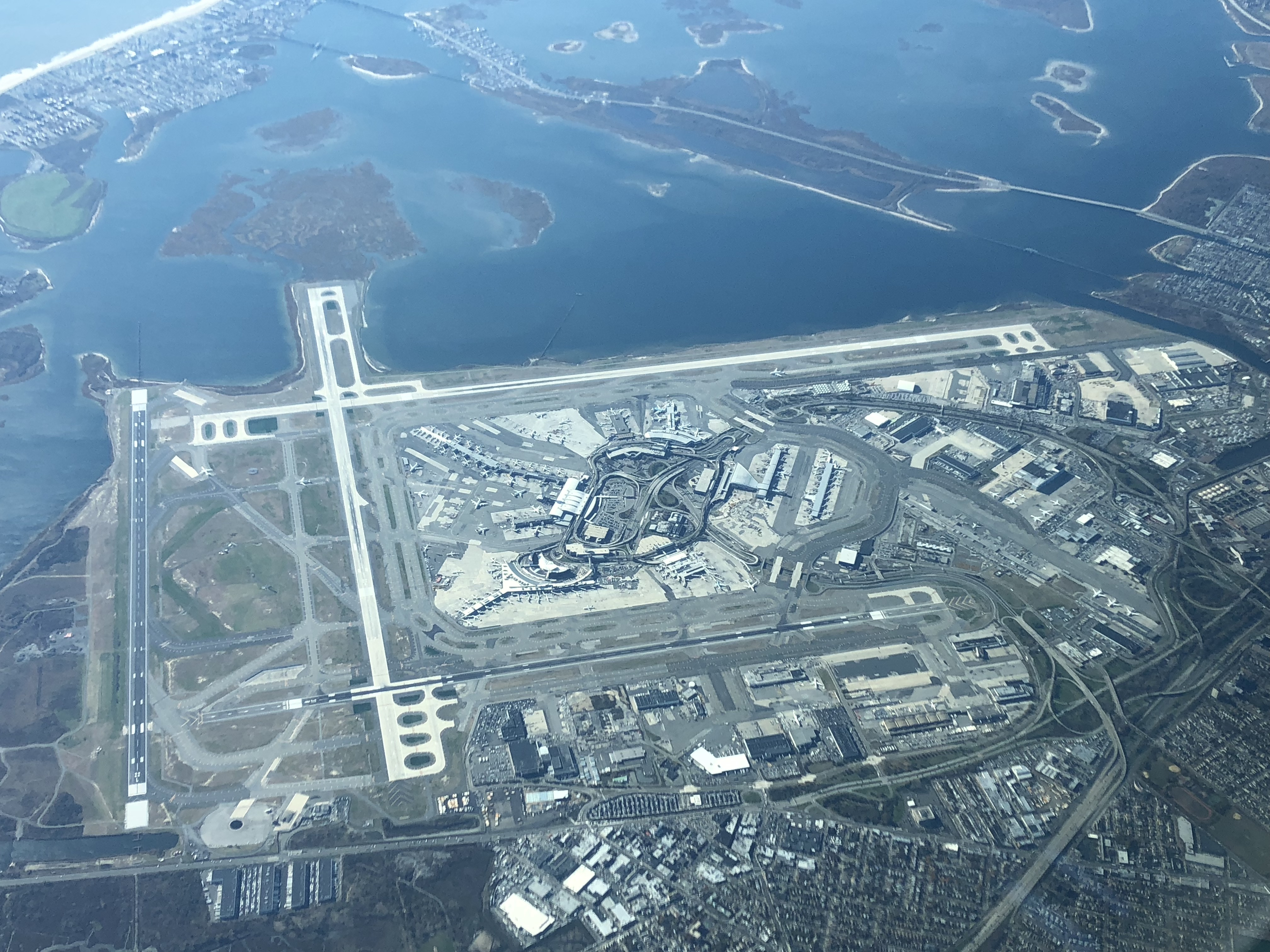 Aerial image of JFK Airport. Taken November 14th, 2018